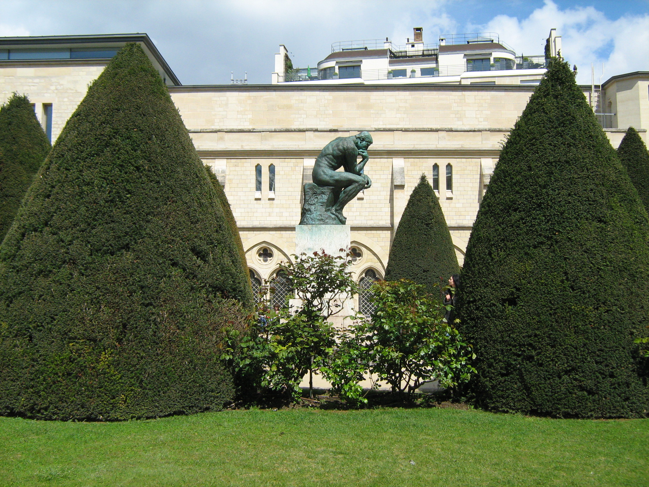 "The Thinker" in the garden at the Auguste Rodin Museum, Paris. April 2012